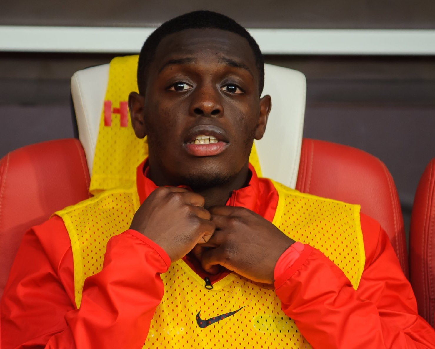 Malcolm Badu with FC Spartak Moscow during a game against FC Dynamo Moscow.